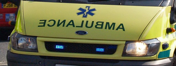 Reverse written "AMBULANCE" with Star of Life above the text ("ECNALUBMA"). Also seen is blue LED lights in the grill and alternating high-beams ("wig-wag").